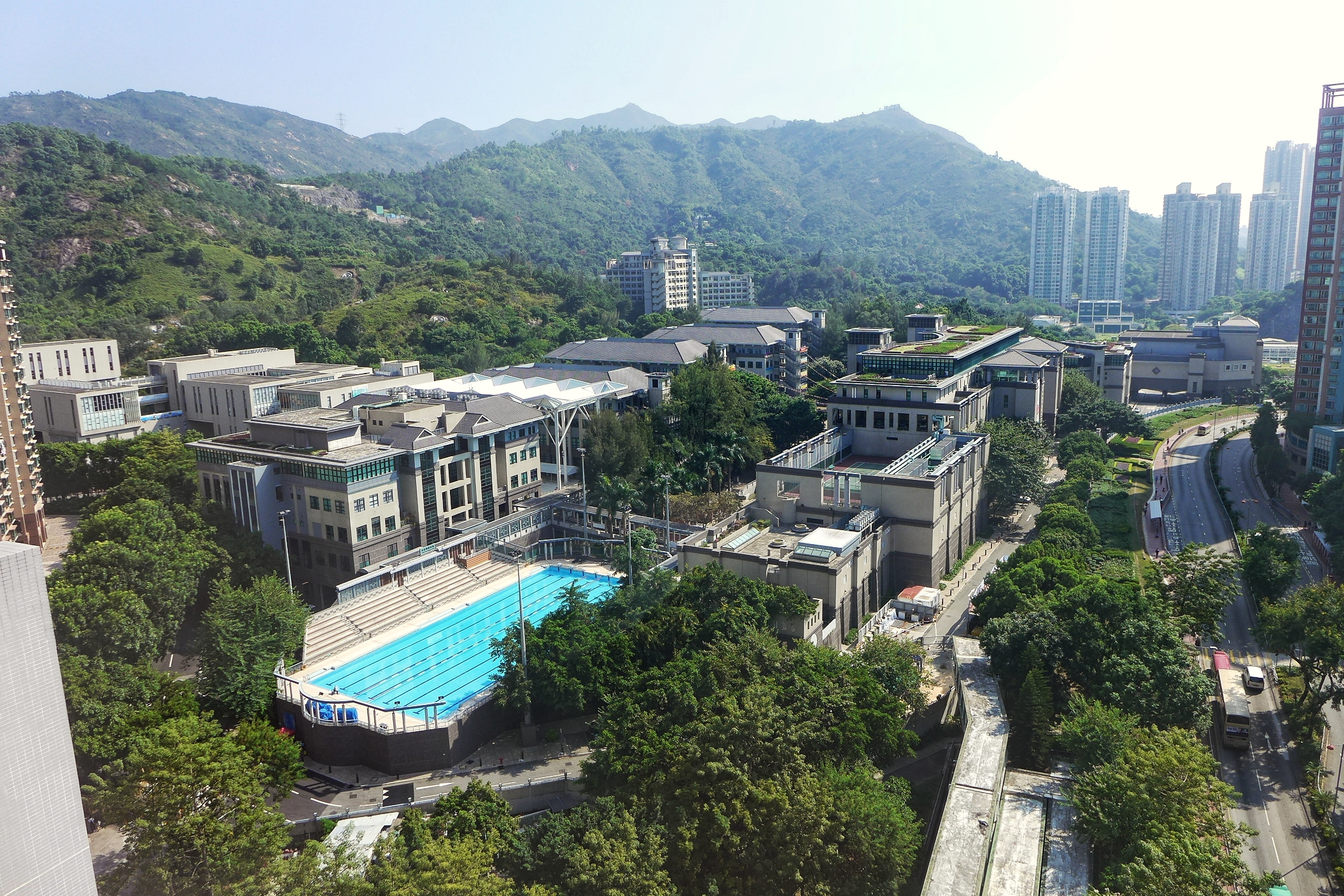 Lingnan University Campus Overview